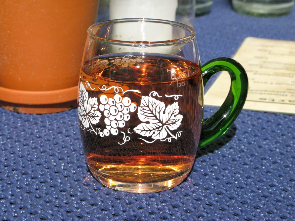 A "Viertele" (quarter of wine) served in a traditional glass in a Besenwirtschaft in Baden-Württemberg. Part of the wine was drunk already.